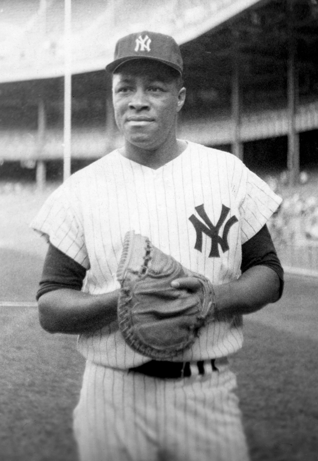 Elston Howard during warmup at Yankee Stadium, Bronx, New York.